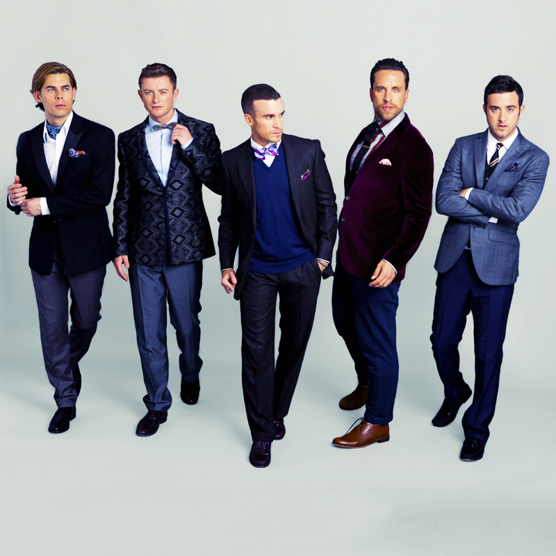 The Overtones